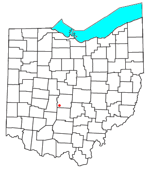 Locator map of the unincorporated community of Darbydale in Franklin County, Ohio, United States.